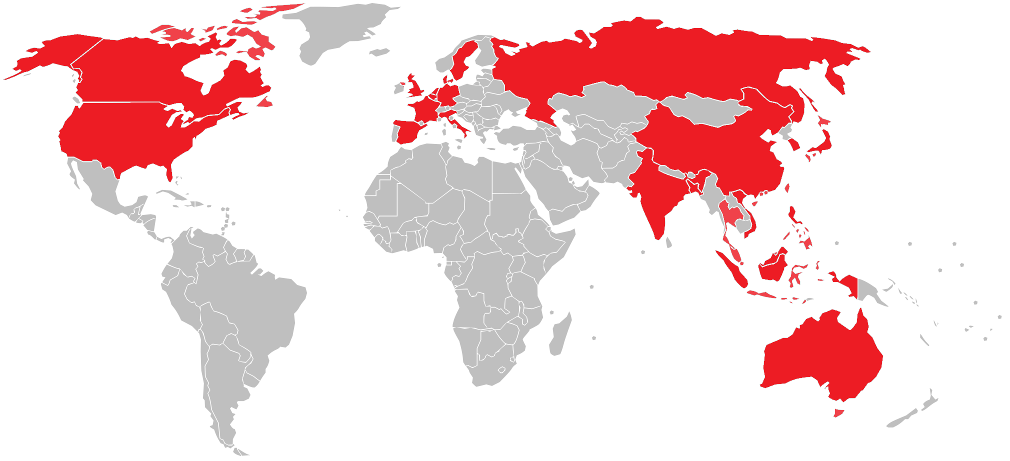 map of countries with uniqlo stores